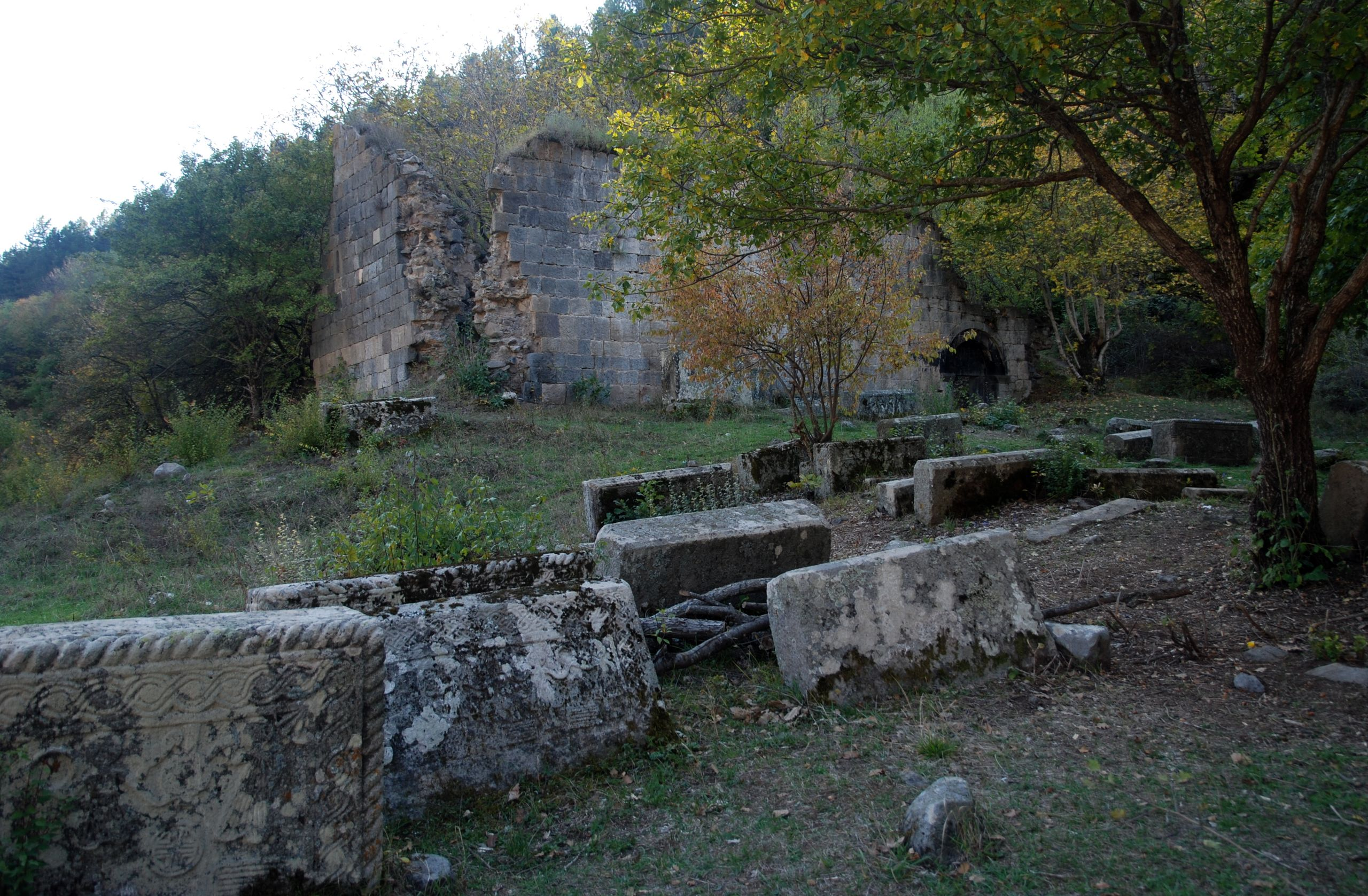 Khndzoresk, hermitage 45/5.19 45/5.19.1